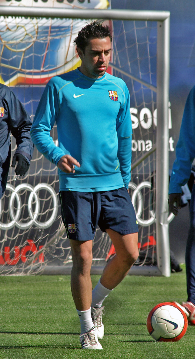 Xavier Hernández (born January 25, 1980, Terrassa, Catalonia), normally known as Xavi is a Spanish footballer who plays in central midfield for FC Barcelona